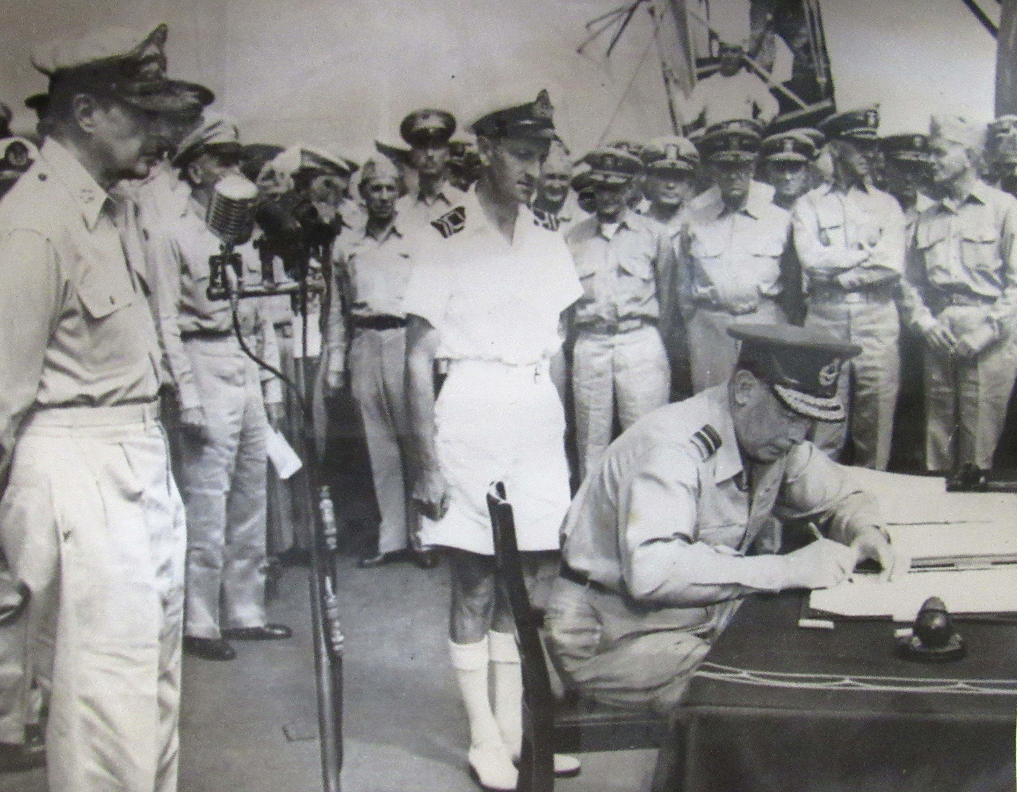 On 2 September 1945 the Japanese Instrument of Surrender, the written agreement that formalized the surrender of the Empire of Japan, marking the end of World War II was signed. It was signed by representatives from the Empire of Japan, the United States of America, the Republic of China, the United Kingdom of Great Britain and Northern Ireland, the Union of Soviet Socialist Republics, the Commonwealth of Australia, the Dominion of Canada, the Provisional Government of the French Republic, the Kingdom of the Netherlands, and the Dominion of New Zealand. The signing took place on the deck of USS Missouri in Tokyo Bay on September 2, 1945. Pictured here is Leonard Monk Isitt, signing the instrument of surrender. Isitt was a New Zealand military aviator and senior air force commander. In 1943 he became the first New Zealander to serve as the Chief of Air Staff of the Royal New Zealand Air Force, a post he held until 1946. After the war he worked as chairman of Tasman Empire Airways. Archives New Zealand Reference: ADQA 17263 AIR118 72/64 part 36 For more information For updates on our On This Day series and news from Archives New Zealand, follow us on Twitter Material supplied by Archives New Zealand